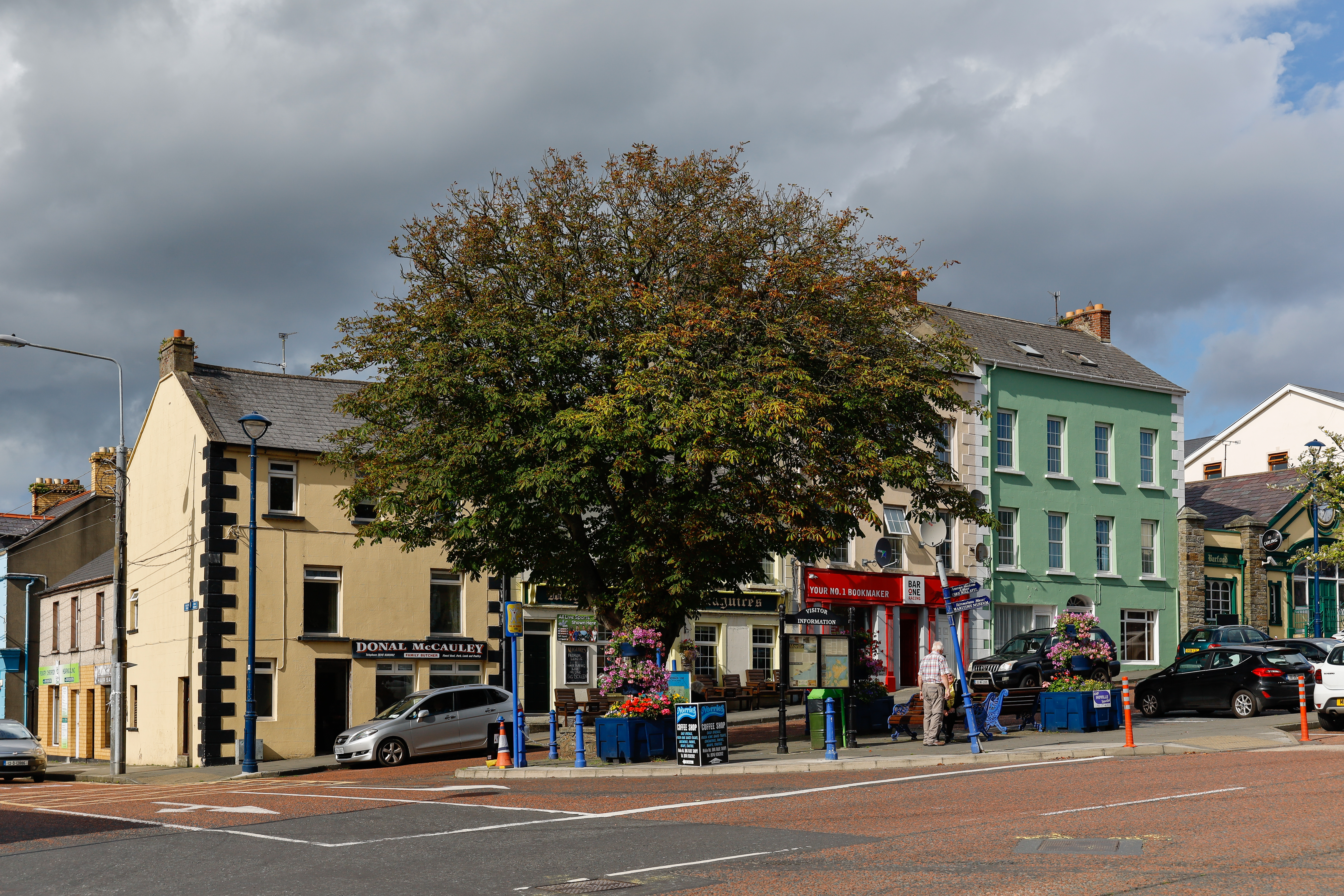 Market Square in Moville, looking north.